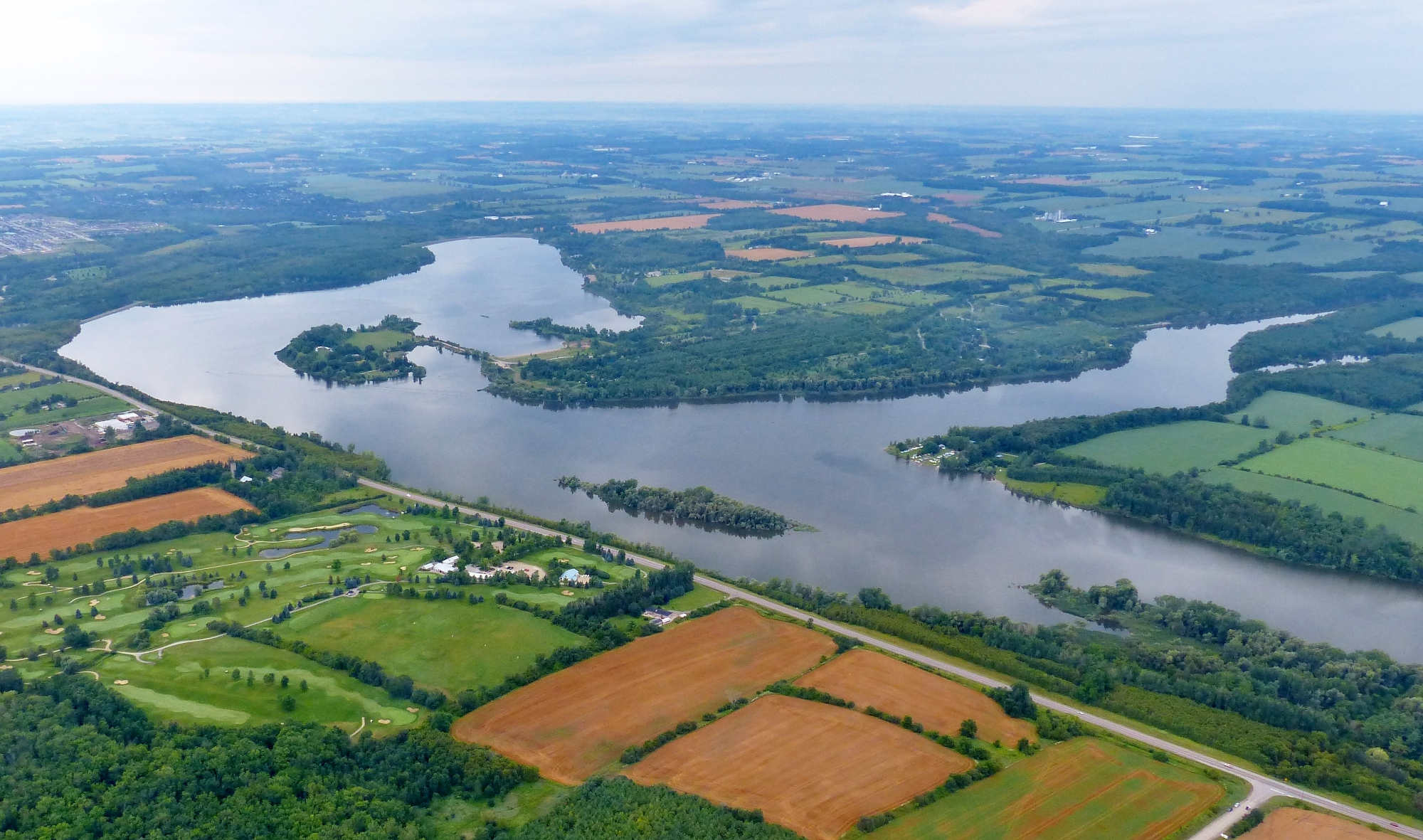 This is the Guelph Lake. The view is looking towards the northwest. The road running along the shoreline is Wellington Country Road 124. The upper left end is the Guelph end, and the lower right end is the Erin end. The photo was taken from a Cessna 152 C-FQZB owned by pilot Bill Carius.